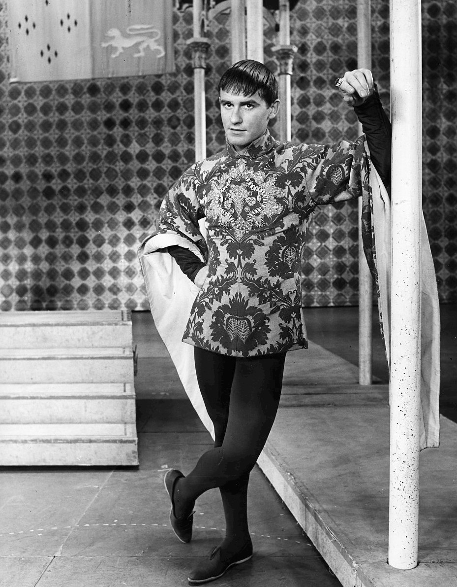 Photo of Roddy McDowall as Mordred from the Broadway production of Camelot.